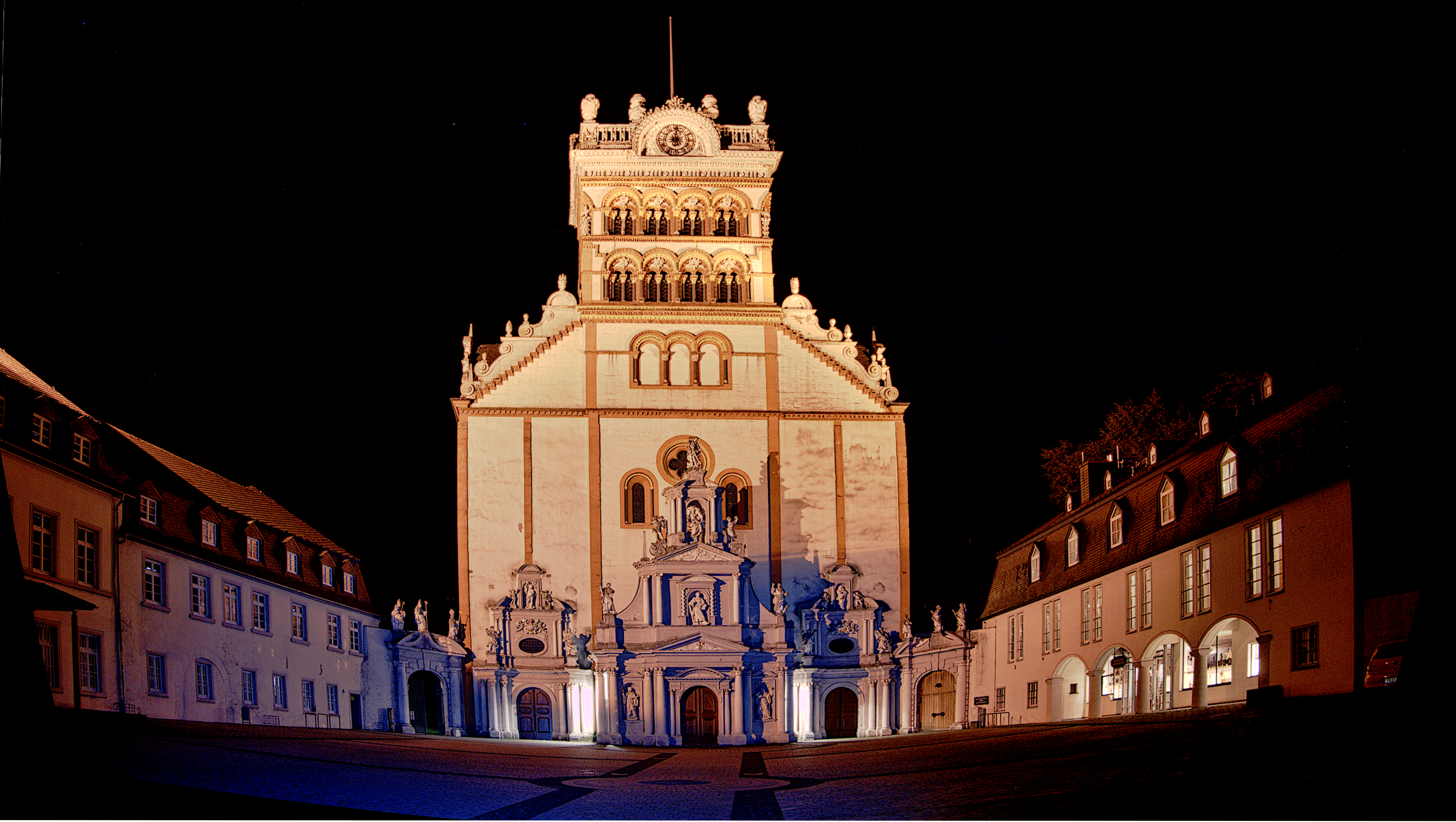 St. Matthias monastery from the west at night